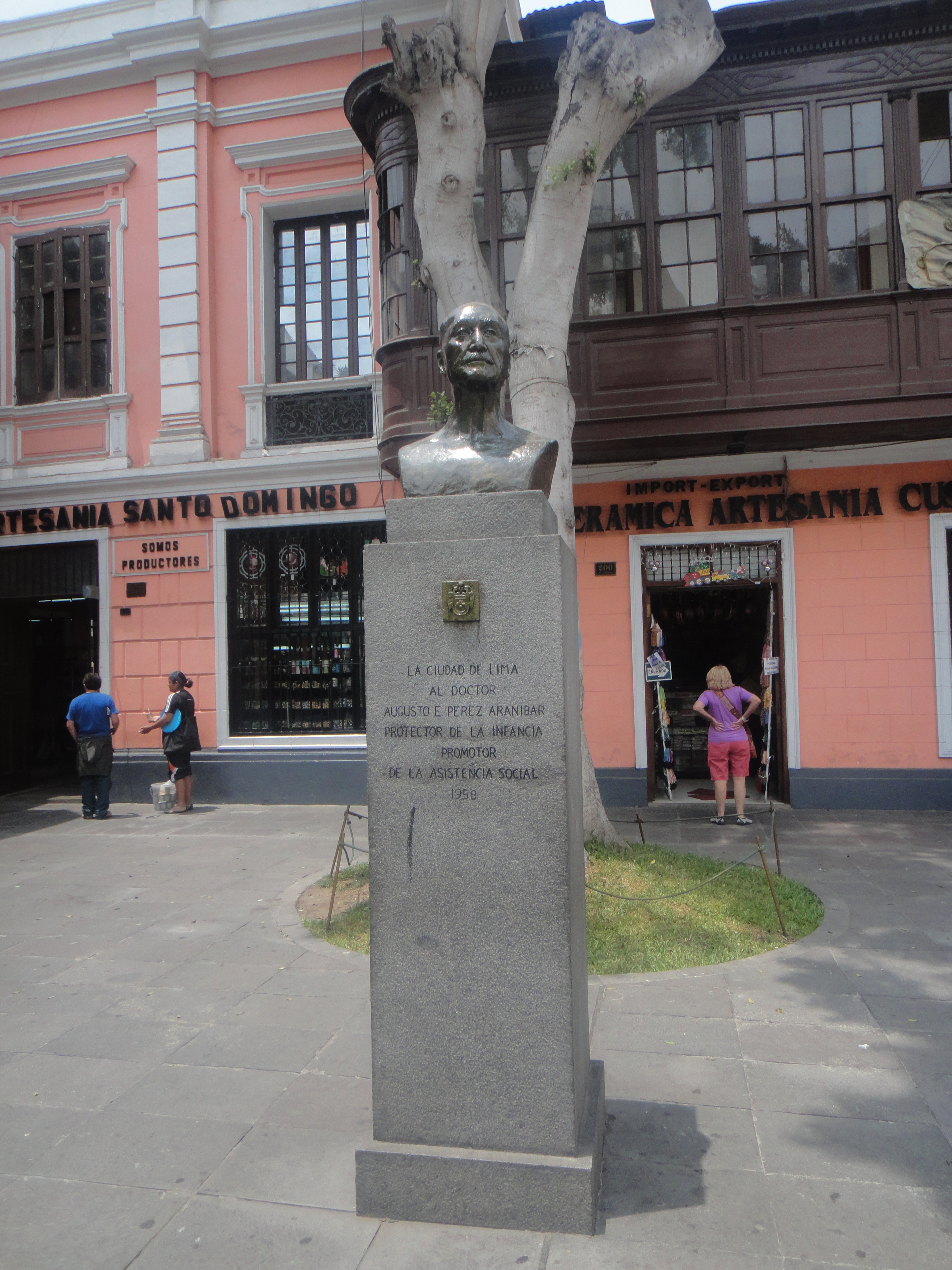 Bust of Augusto Pérez Araníbar (physician) in Lima-Peru.